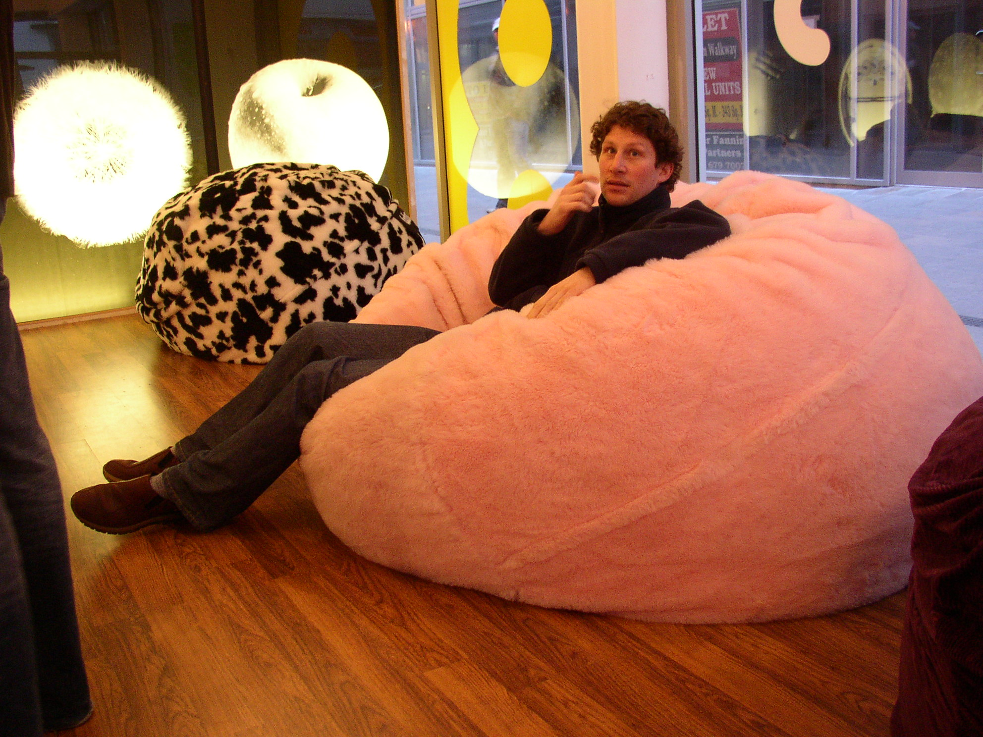 Bean bags in the Budda Bag Shop in Dublin.